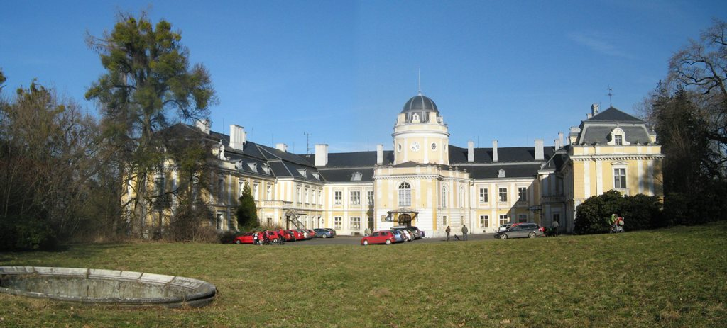 Šilheřovice - Golf club and castle